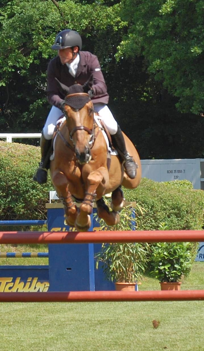 British rider Guy Williams with Skip Two Ramiro, first qualifier to the German show jumping derby in Hamburg 2011 (CSI 3*)